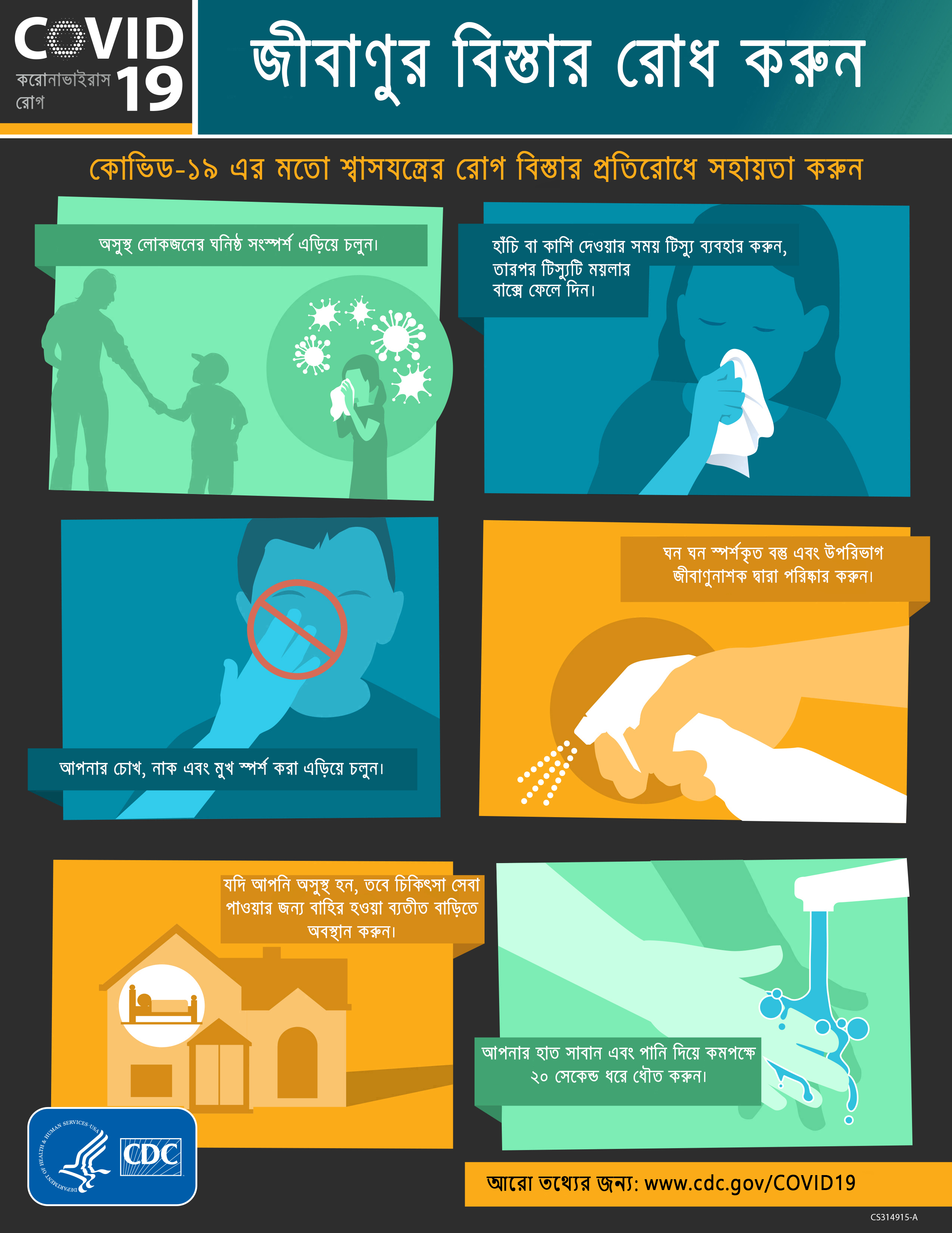 Infographic describing how to stop the spread of germs.